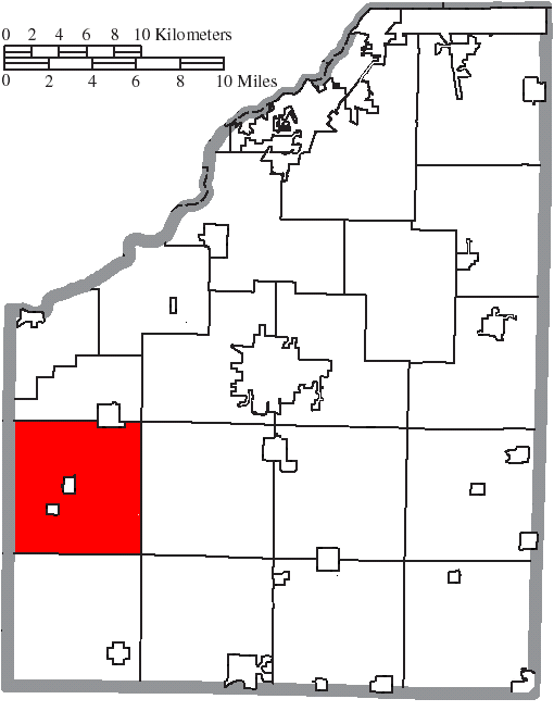 Map of the municipal and township boundaries of Wood County, Ohio, United States, as of the 2000 census, with the location of Milton Township highlighted. Township borders are shown only in unincorporated areas in order to differentiate incorporated and unincorporated areas more clearly.